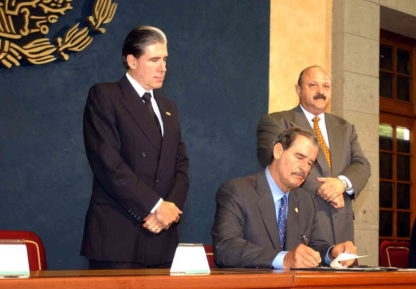 Cropped picture of Julio Frenk, Mexican Secretary of Health (left); president Vicente Fox and Reyes Tamez, Mexican Secretary of Education (right); during the initialing ceremony of the National Institute of Genomic Medicine in Los Pinos.